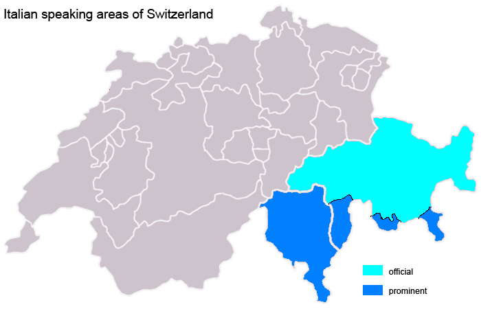 A map of the Italian-speaking areas of the Swiss Confederation.